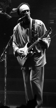 Jack Sonni performing with Dire Straits